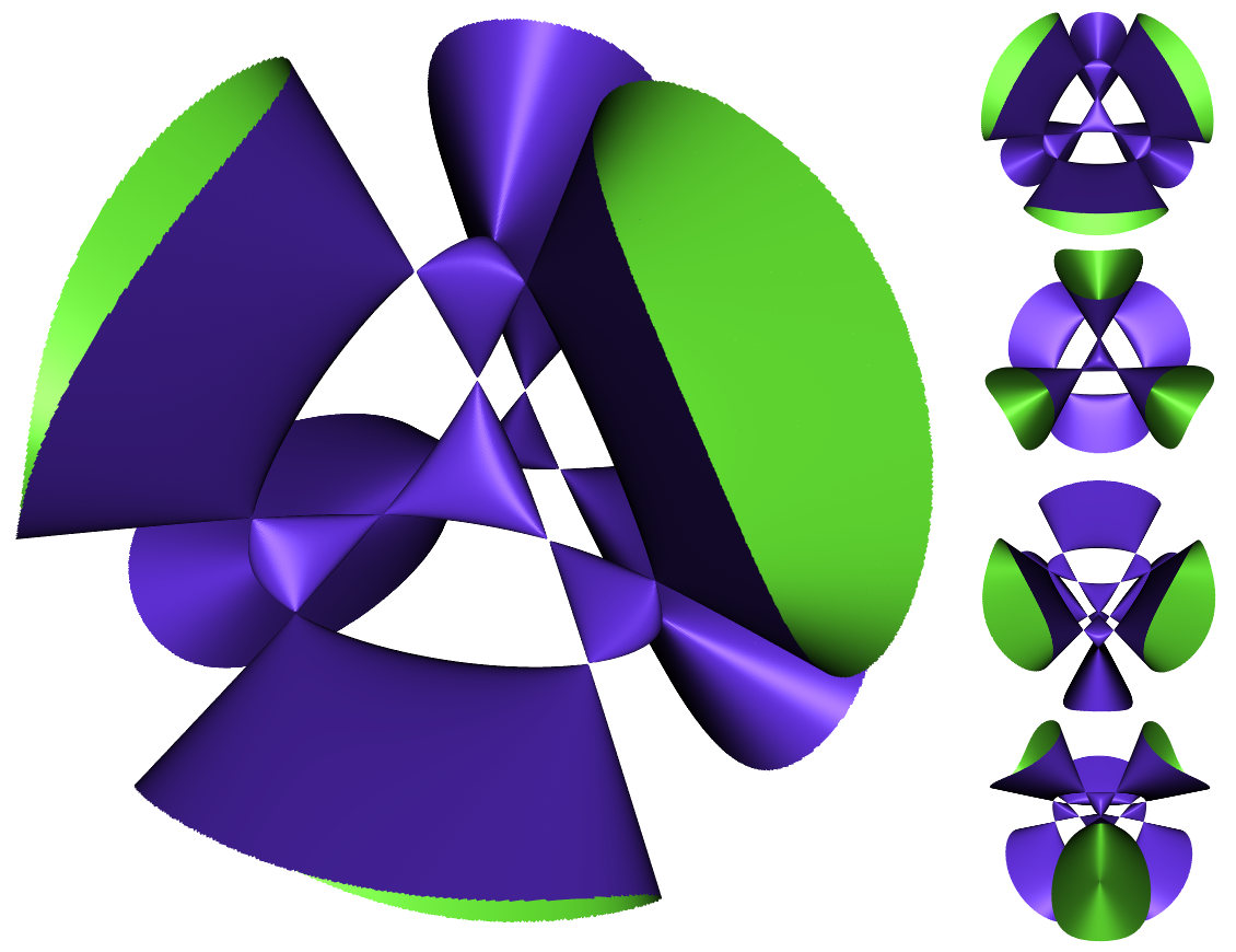 Example of Kummer Surface (with some views).